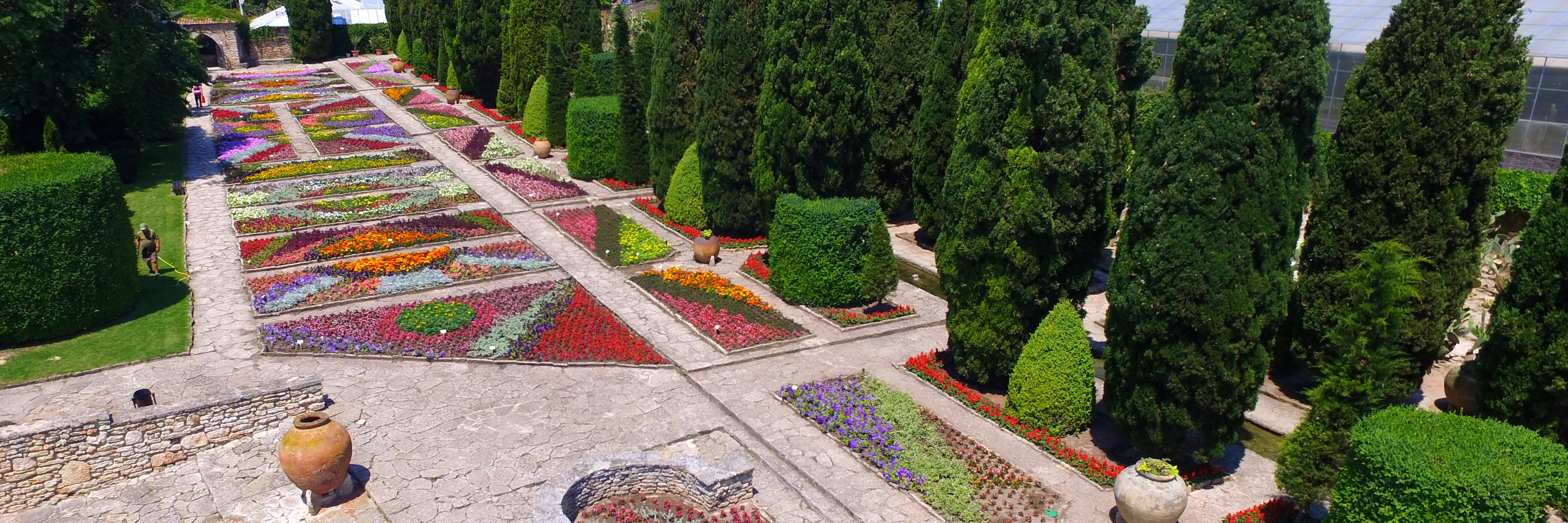 DCIM\100MEDIA\DJI_0780.JPG